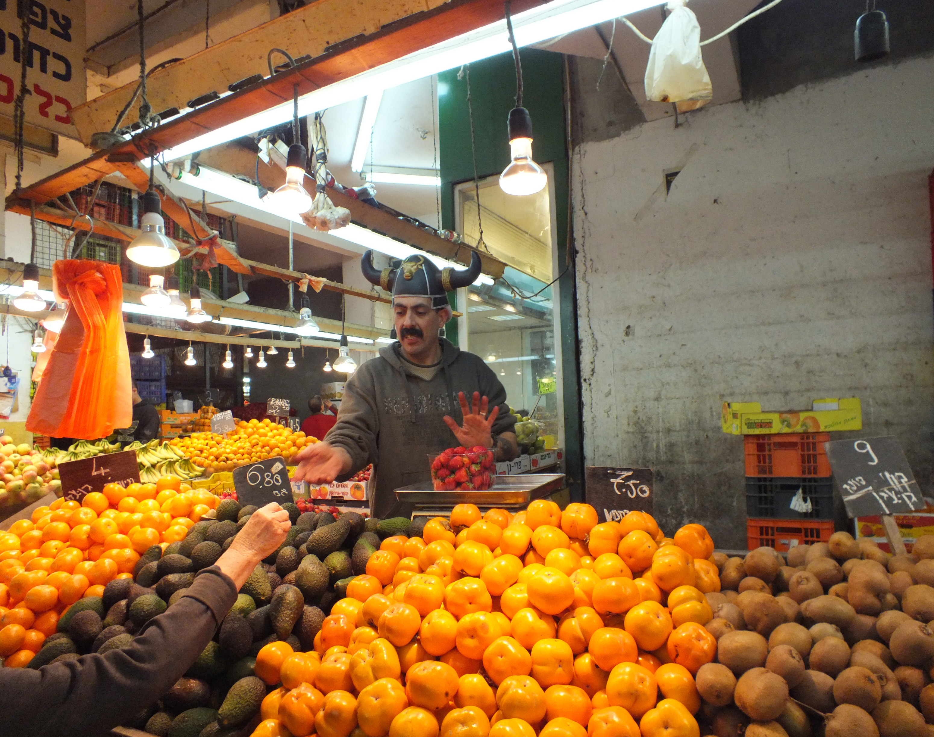 Falah the Viking: Stallmen at Shuk Talpiyot are on the mark for the bidiurnal holiday of Purim with sporadic hints of traditional and less-traditional costumes. Falah (I guess it would be فلاح) also sells fresh fruits on regular days.